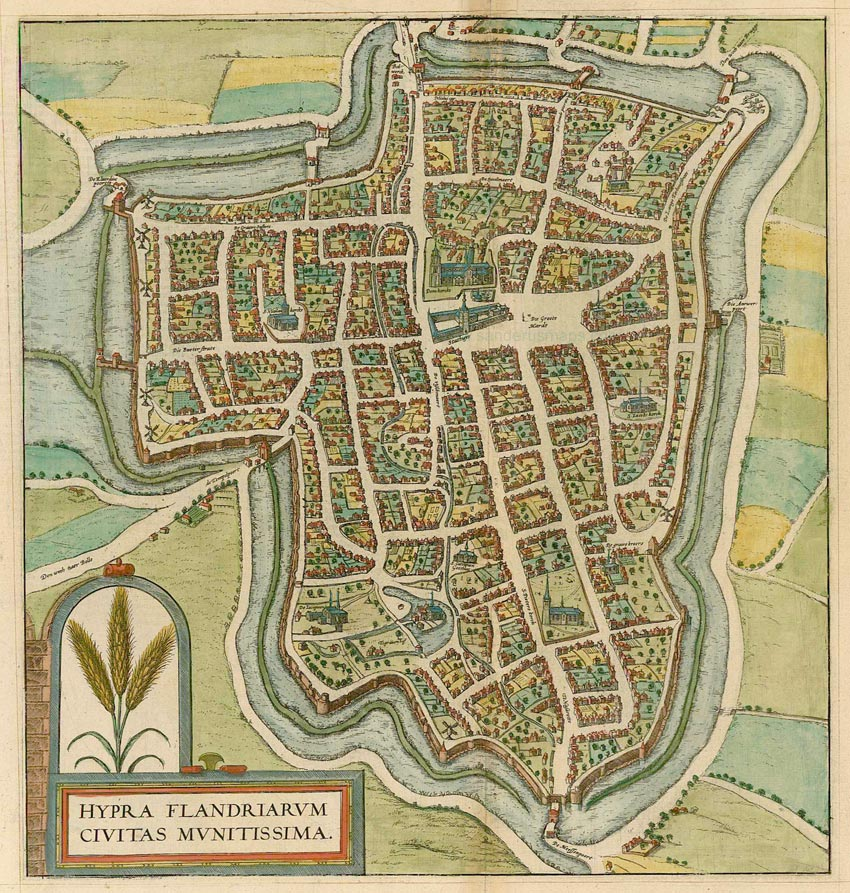 Antique map of Ieper by Braun & Hogenberg Hypra Flandriarum Civitas Munitissima - Braun & Hogenberg, 1581-88. Bird'seye plan of Ieper. Copper engraving Size: 34 x 32cm (13 x 13 inches) Verso text: Latin Condition: Old coloured, excellent. From: Civitates Orbis Terrarum. . Liber tertius. Köln, G. Kempen, 1581-88. (Koeman, B&H3)